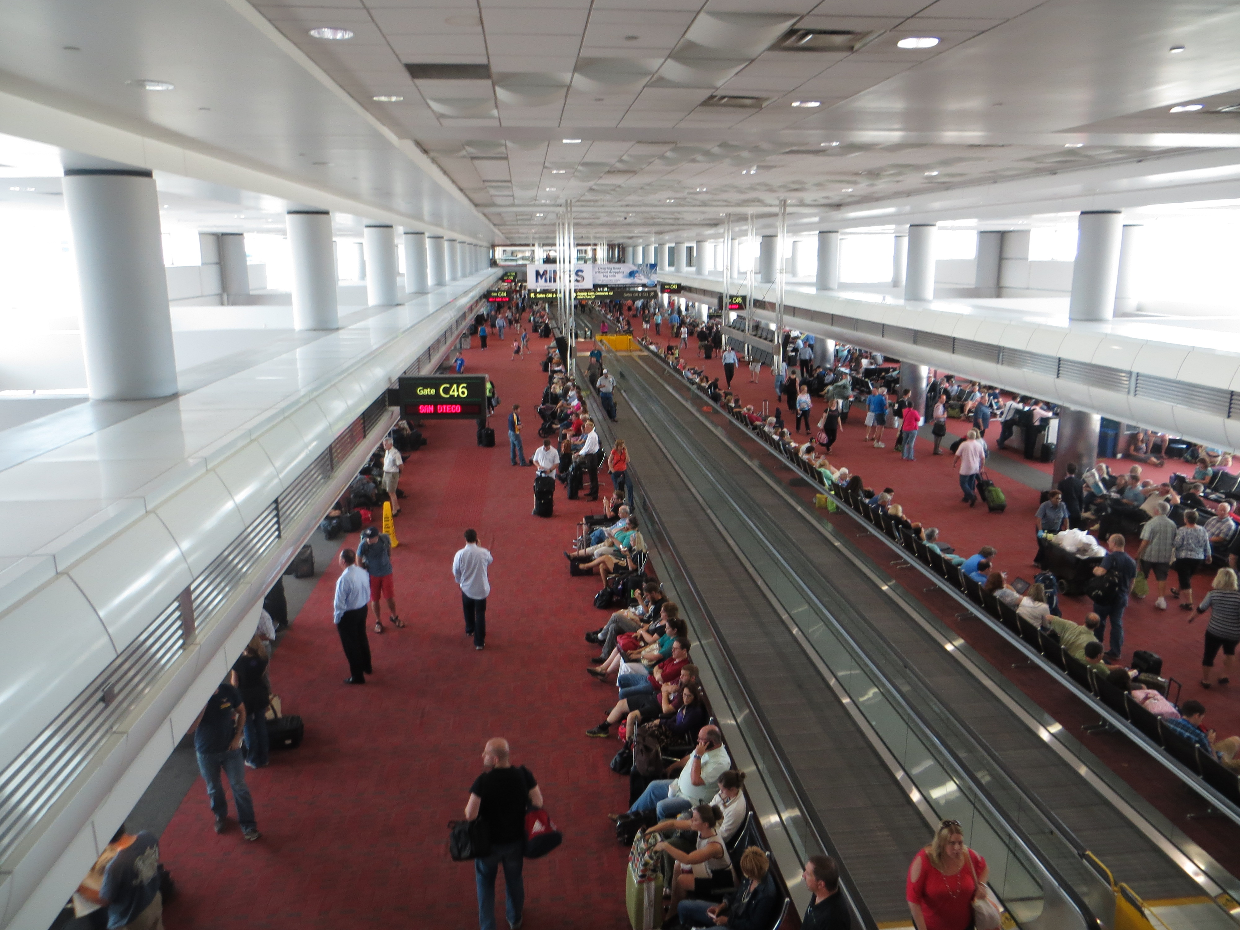 Concourse C at Denver Int’l Airport.